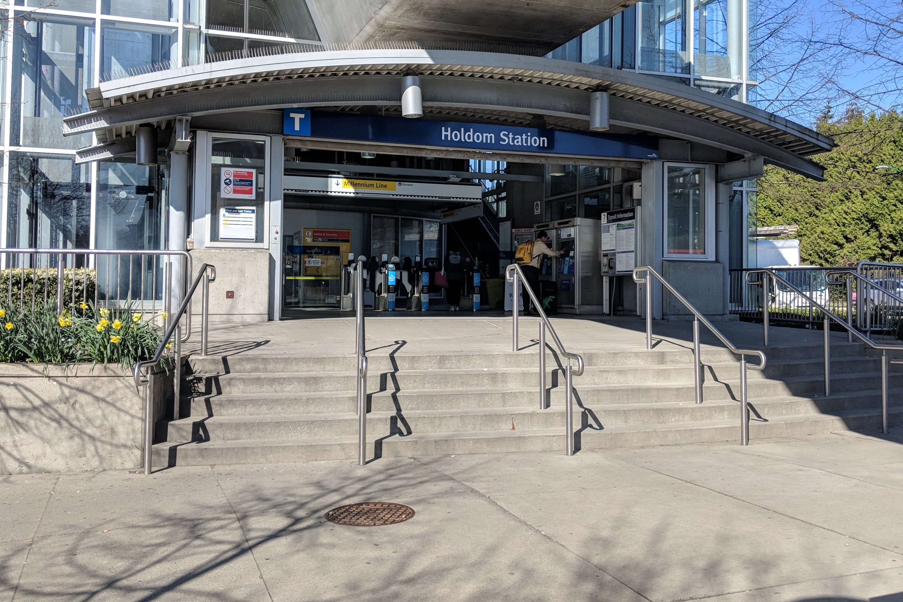 Holdom station entrance in March 2019.